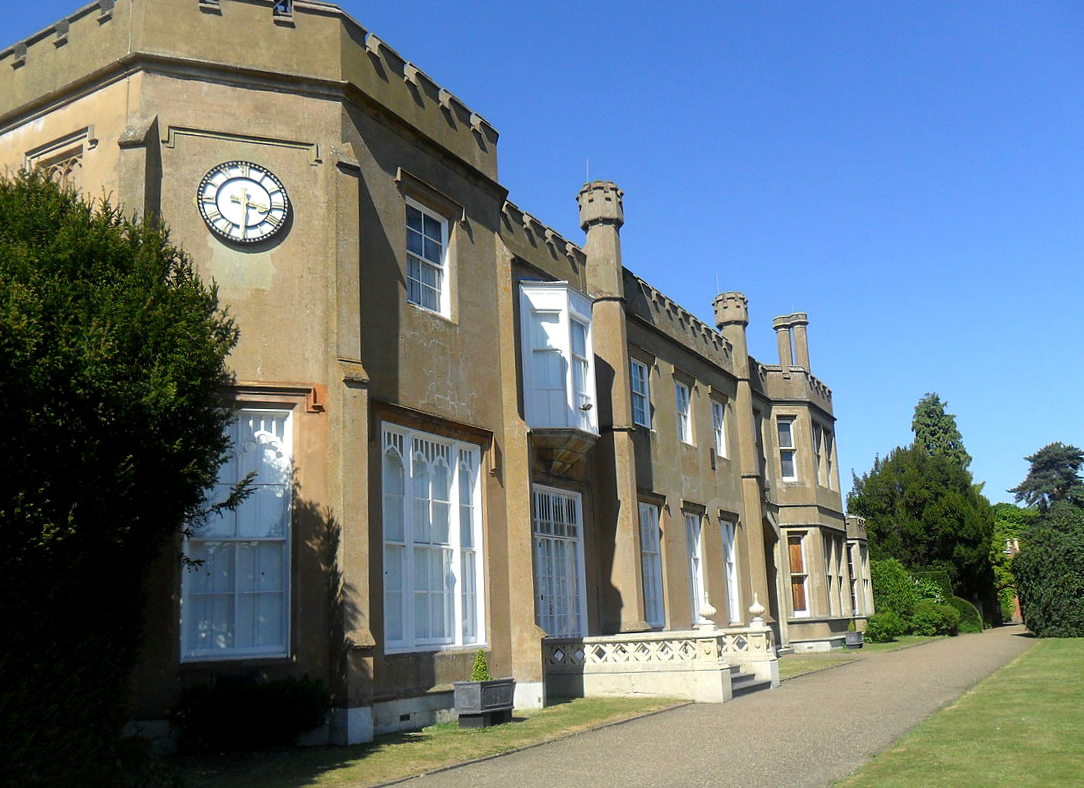 Nonsuch Mansion in Surrey. Used for an episode of "Made in Chelsea" in 2012.